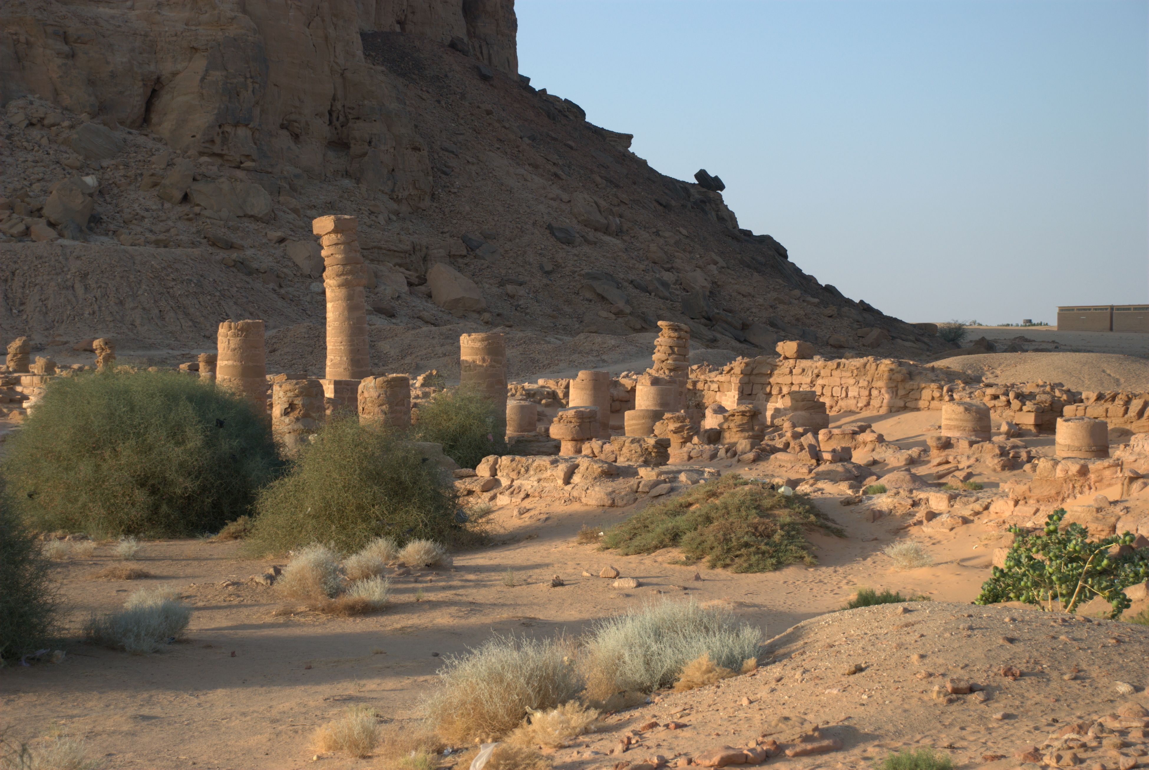 Amun Tempel east of Jebel Barkal, Sudan. Center part from SW